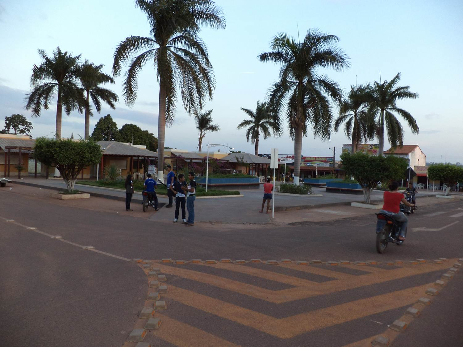 Praça